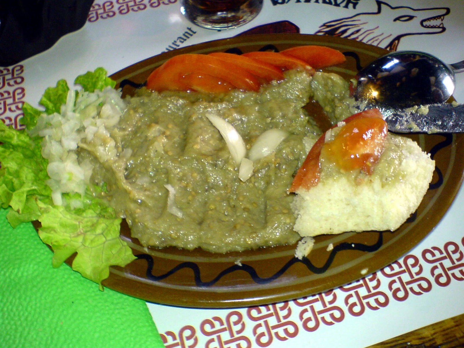 Puree of eggplant